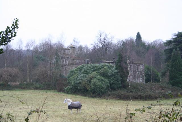 Ruin of Woodbank House, Balloch, Scotland